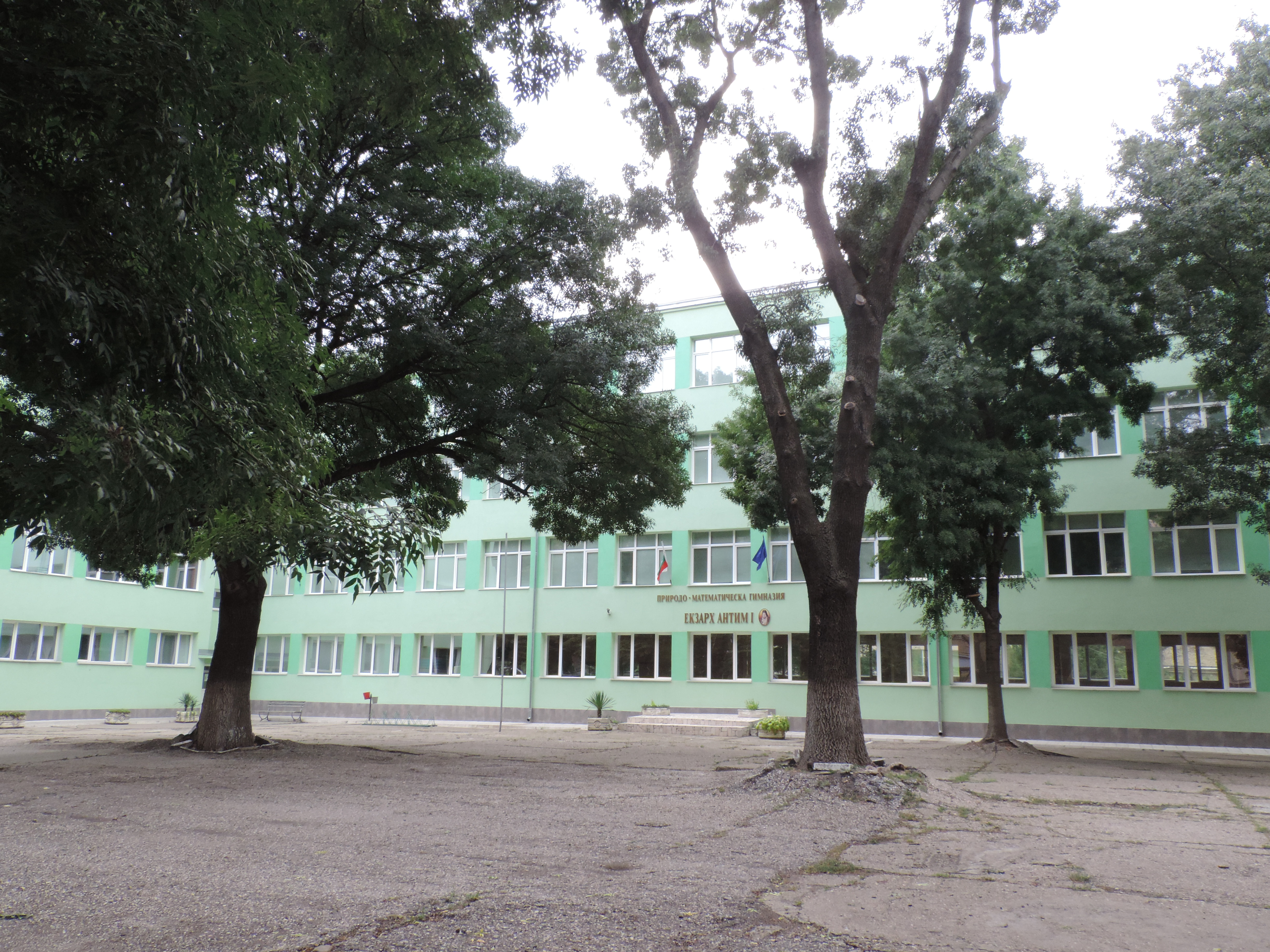 Mathematical and Nature Sciences School "Antim I" in Vidin